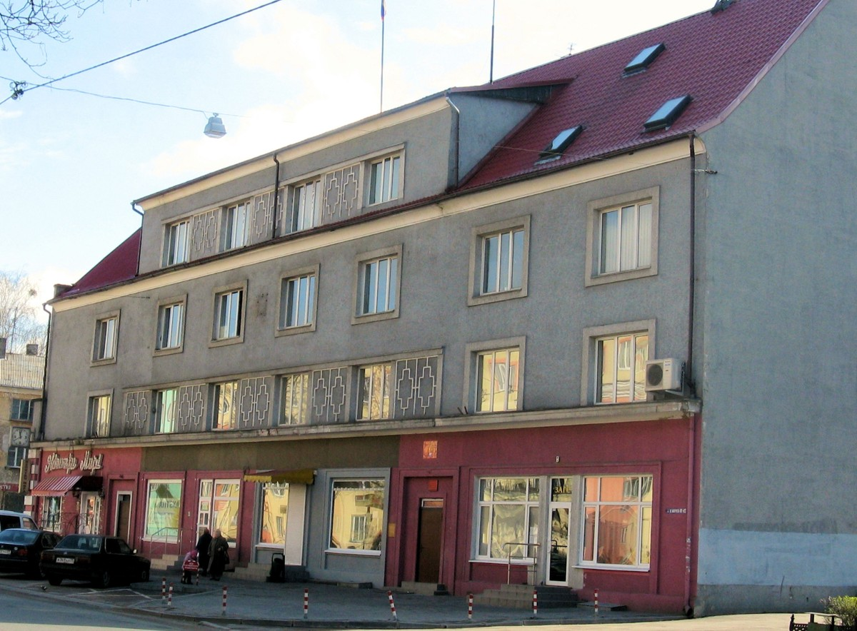 Kaliningrad. Building of the Central district administration.